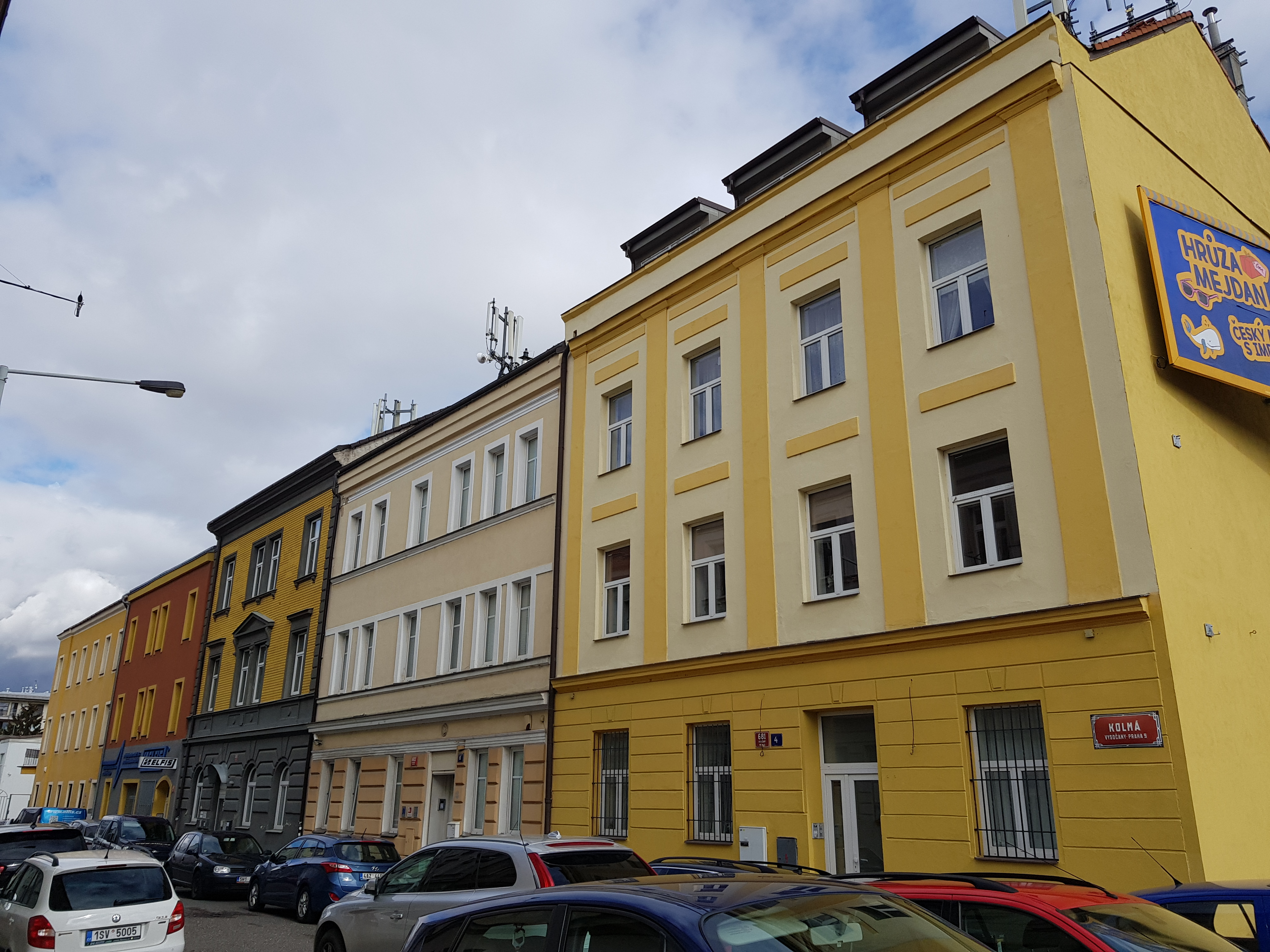 Eastern side of the Kolmá Street in Prague-Vysočany